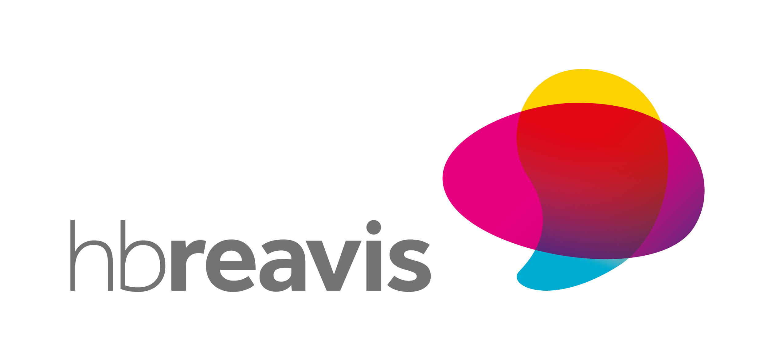 Logo of HB Reavis